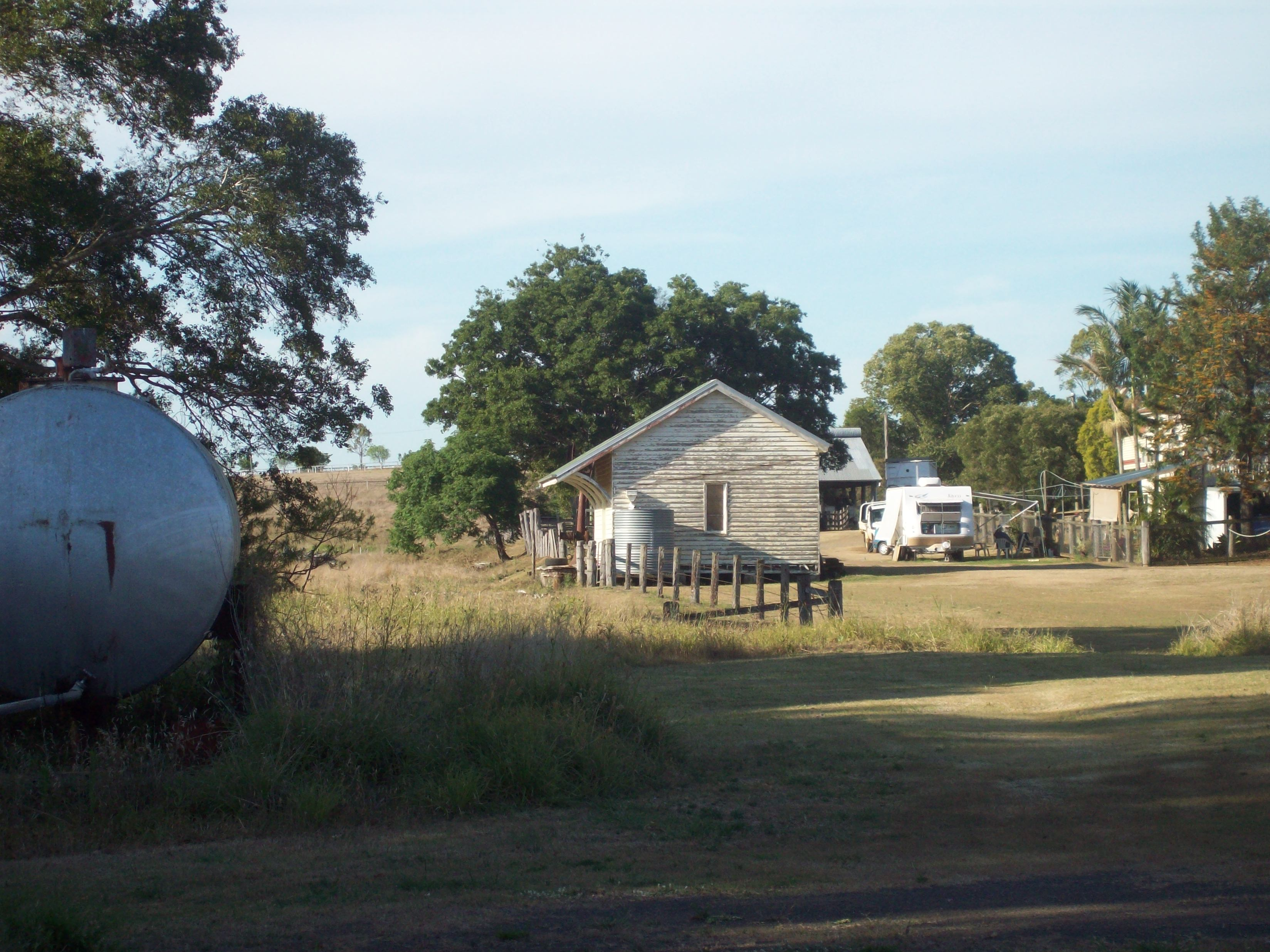 Railway station on the Dugandan branch railway line in Harrisville, Queensland. Closed in 1964.